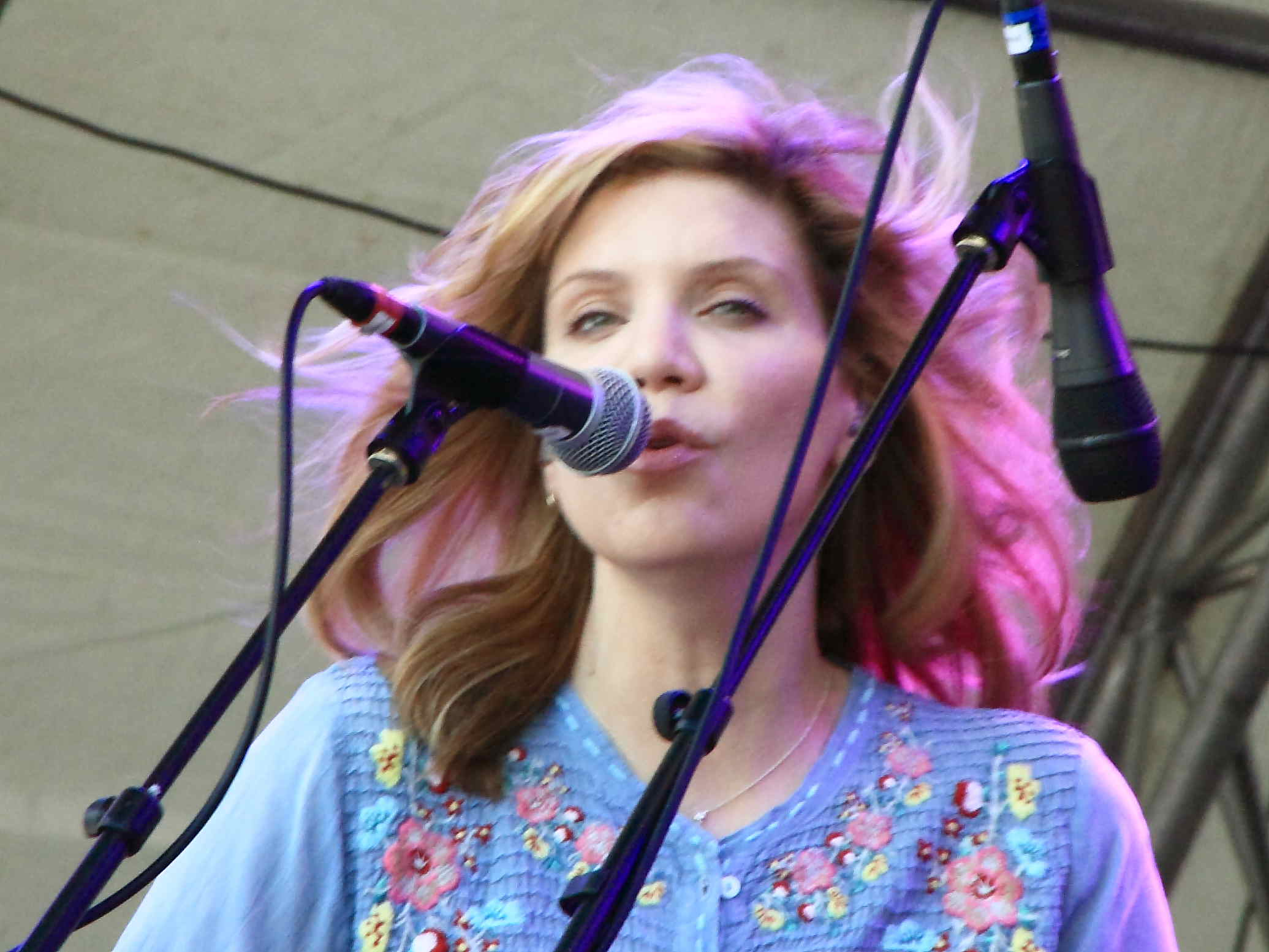 Alison Krauss & Union Station at TFF Rudolstadt 2012